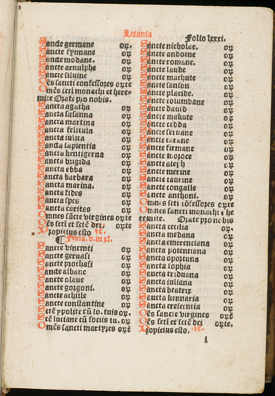 A list of Saints from the Aberdeen Breviary of 1509. Taken from the copy in the National library of Scotland.